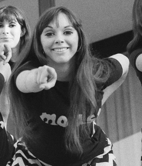 Felicity Isabelle (Flick) Colby dancing in front of Hilton Amsterdam, 22 Sept. 1966. T-shirt reads "MOUSE".